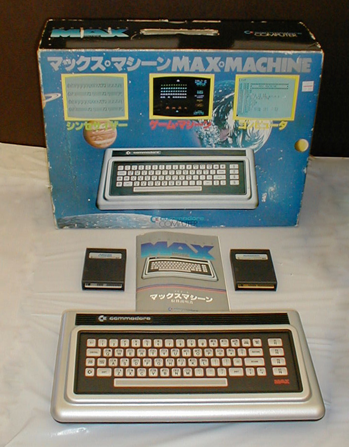 Commodore MAX, a very limited predessor of the C64 as sold in Japan; in USA known as Ultimax and in Germany known as VC-10